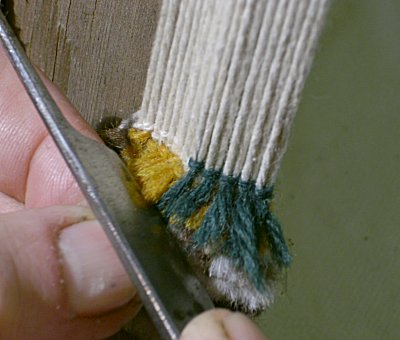 carpet knotting